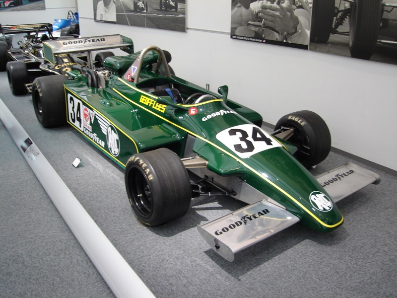 A RALT RH6 (not RT2) Formula 2 chassis, with a Honda V6 engine, as driven by Geoff Lees in the 1980 European F2 Championship